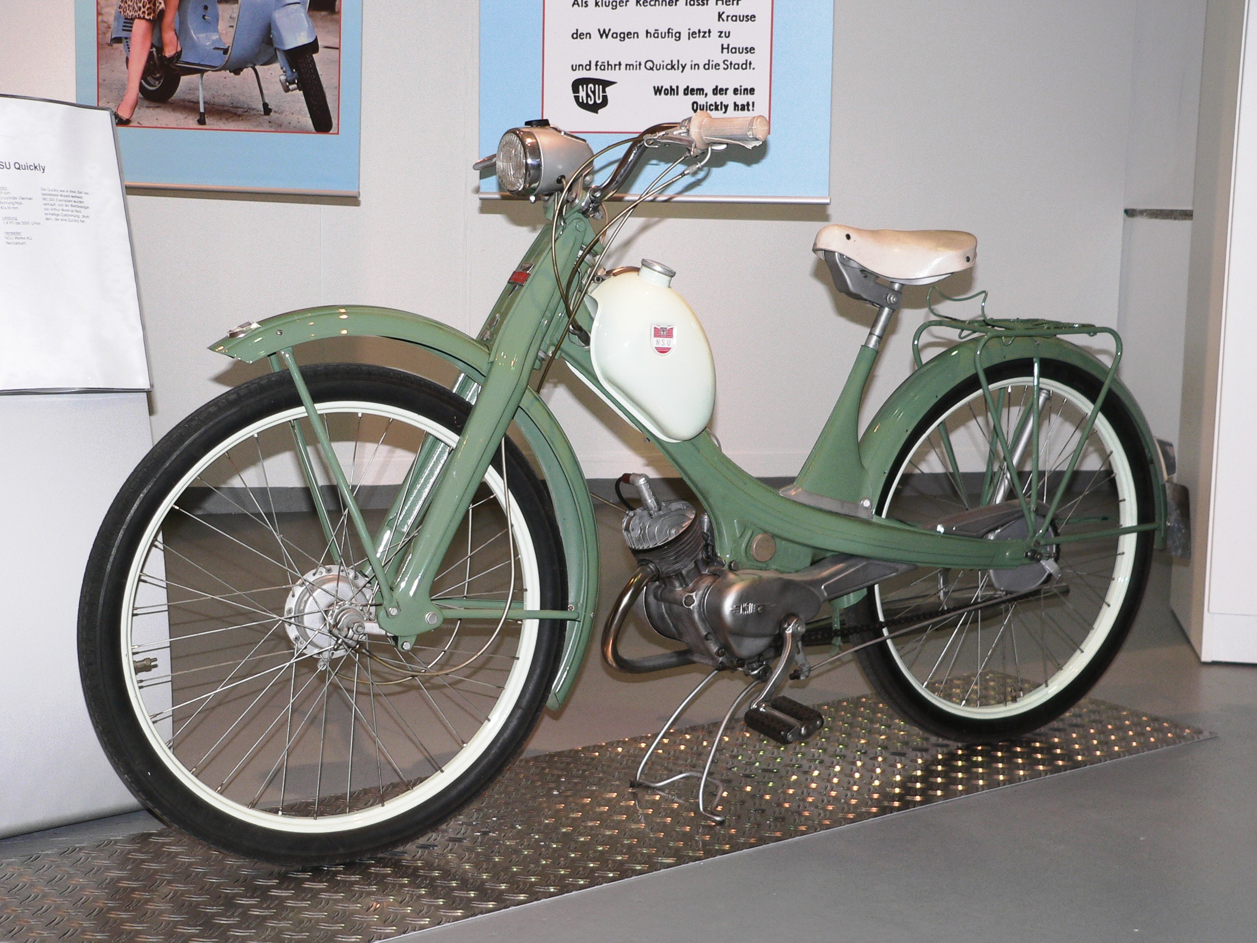 NSU-Quickly, Bestseller Of His Time (1953), 980.000 solded specimen